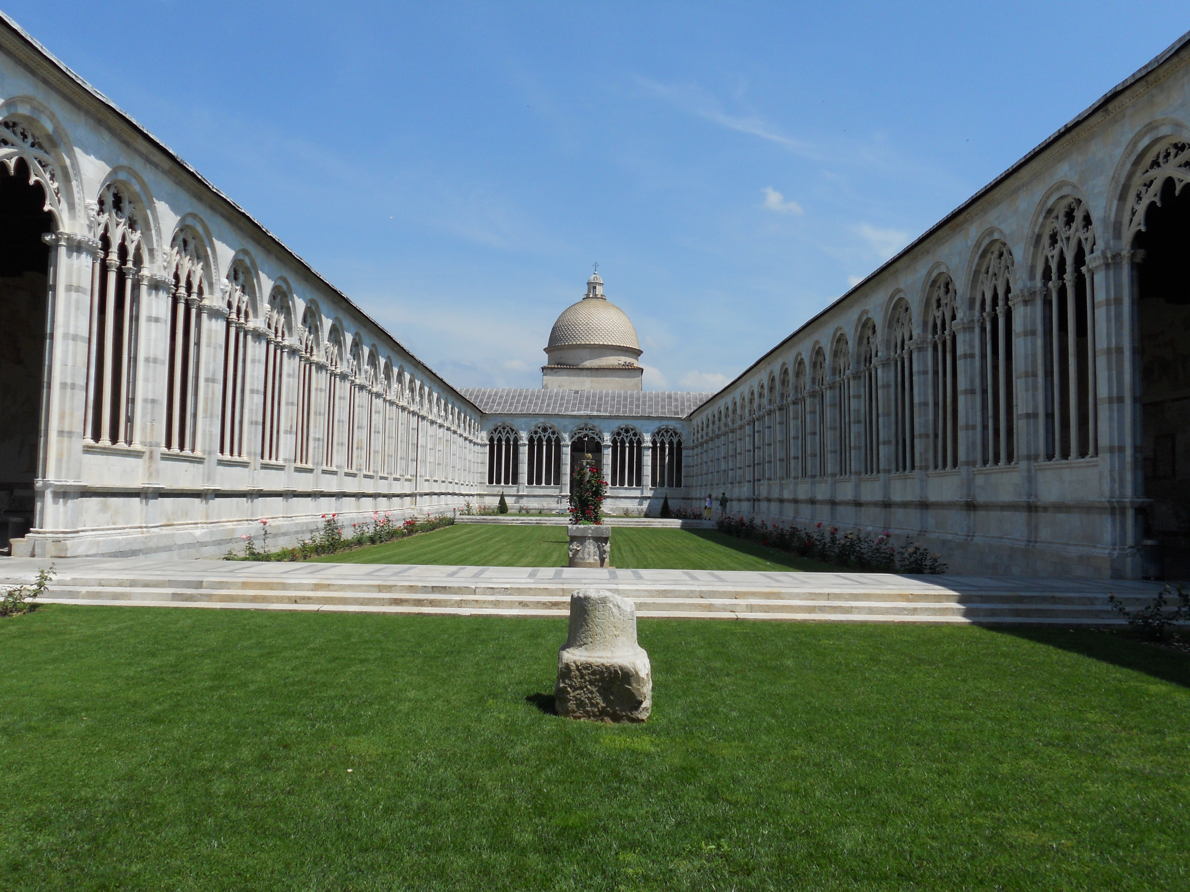 Camposanto of Pisa, interior.